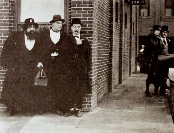 Still from the American comedy short film Ten Dollars or Ten Days (1920) with Kalla Pasha, Charles Murray, Ford Sterling, Phyllis Haver, and Eddie Gribbon, on page 58 of the March 20, 1920 Exhibitors Herald.